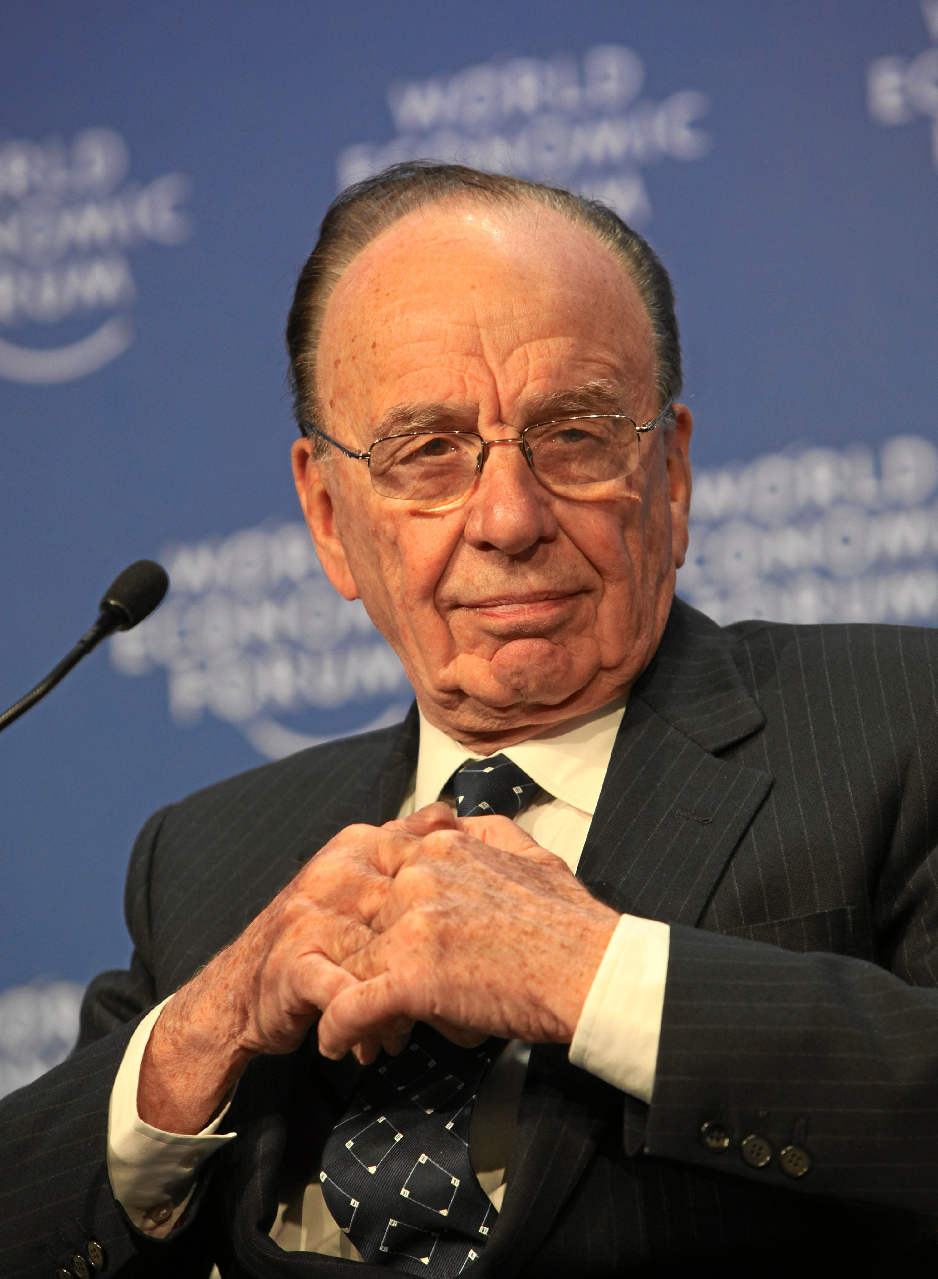 Rupert Murdoch, Chairman and Chief Executive Officer, News Corporation, USA; Co-Chair of the World Economic Forum Annual Meeting 2009 captured during the session 'Advice to the US President on Competitiveness' at the Annual Meeting 2009 of the World Economic Forum in Davos, Switzerland, January 30, 2009.